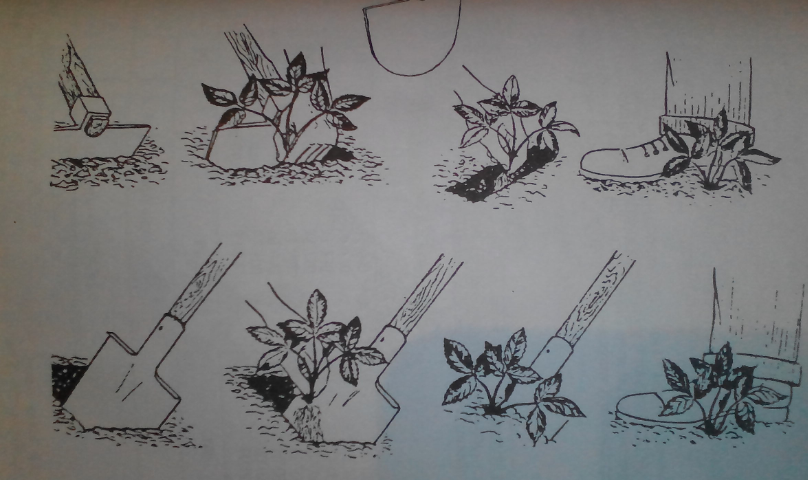 prikaz tehnike sadjenja jagode